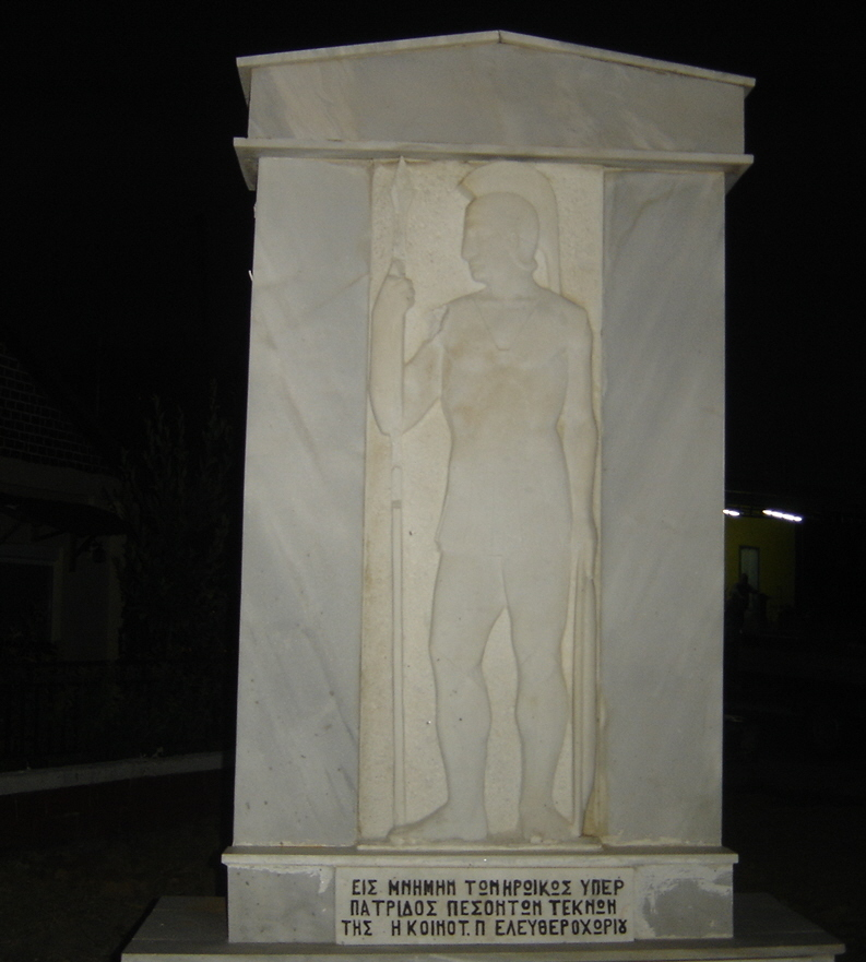 War Memorial in Paleo Eleftherochori.